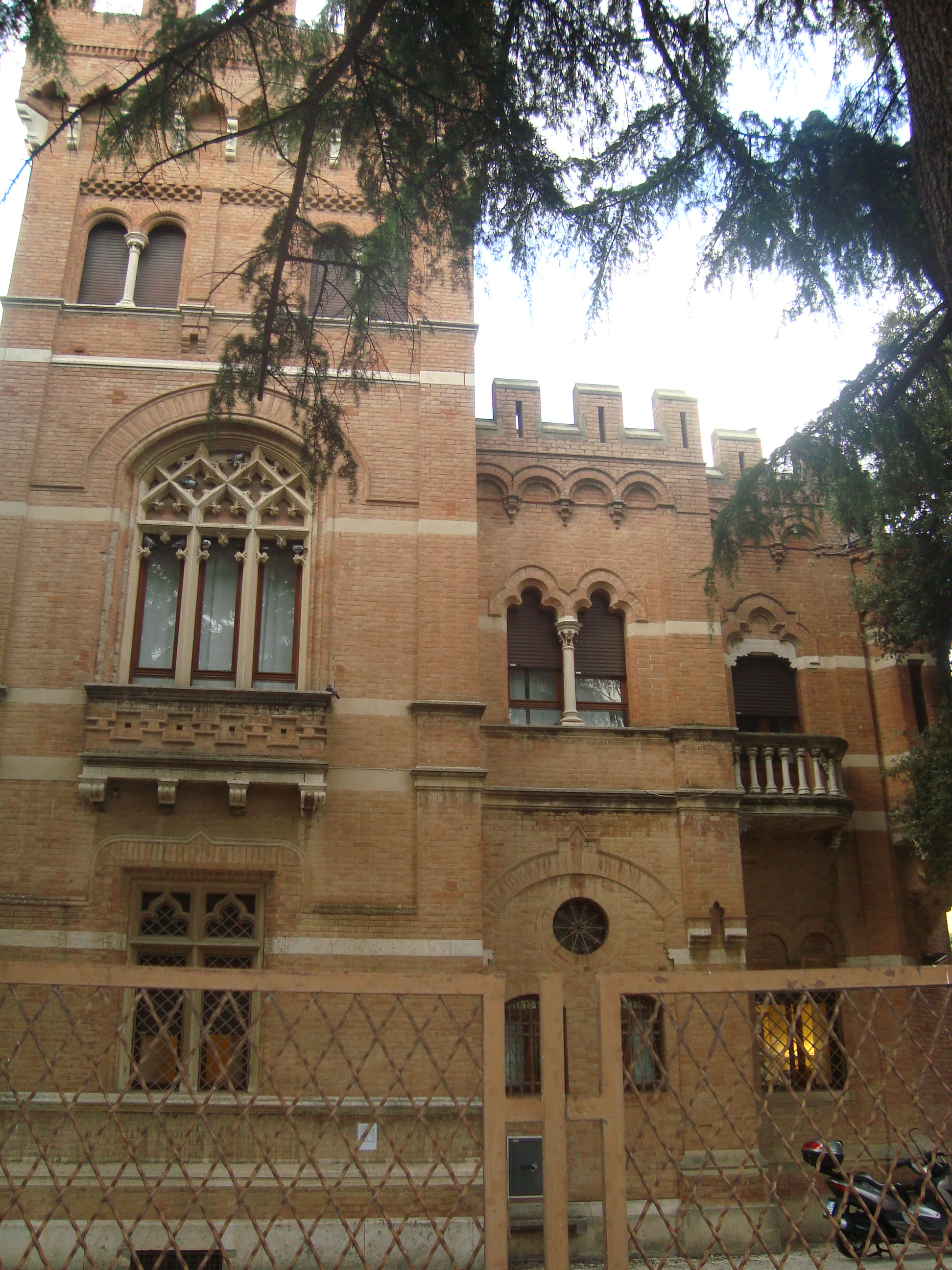 Villino Pastorelli in Grosseto, south face